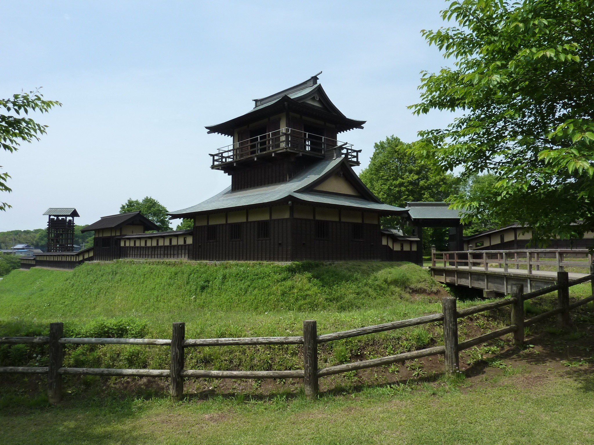 Sakasai Castle Date2010/5/22撮影Source逆井城址公園AuthorMocchyPermission (Reusing this file) 本人撮影 )逆井城（物見櫓）